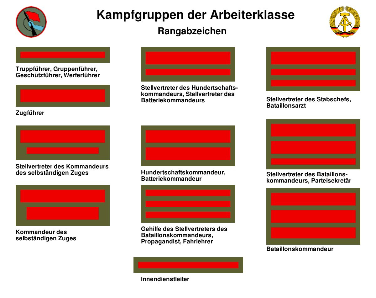 rank insignia of the Kampfgruppen der Arbeiterklasse (Combat Groups of the Working Class) of the former GDR - GIMP source file